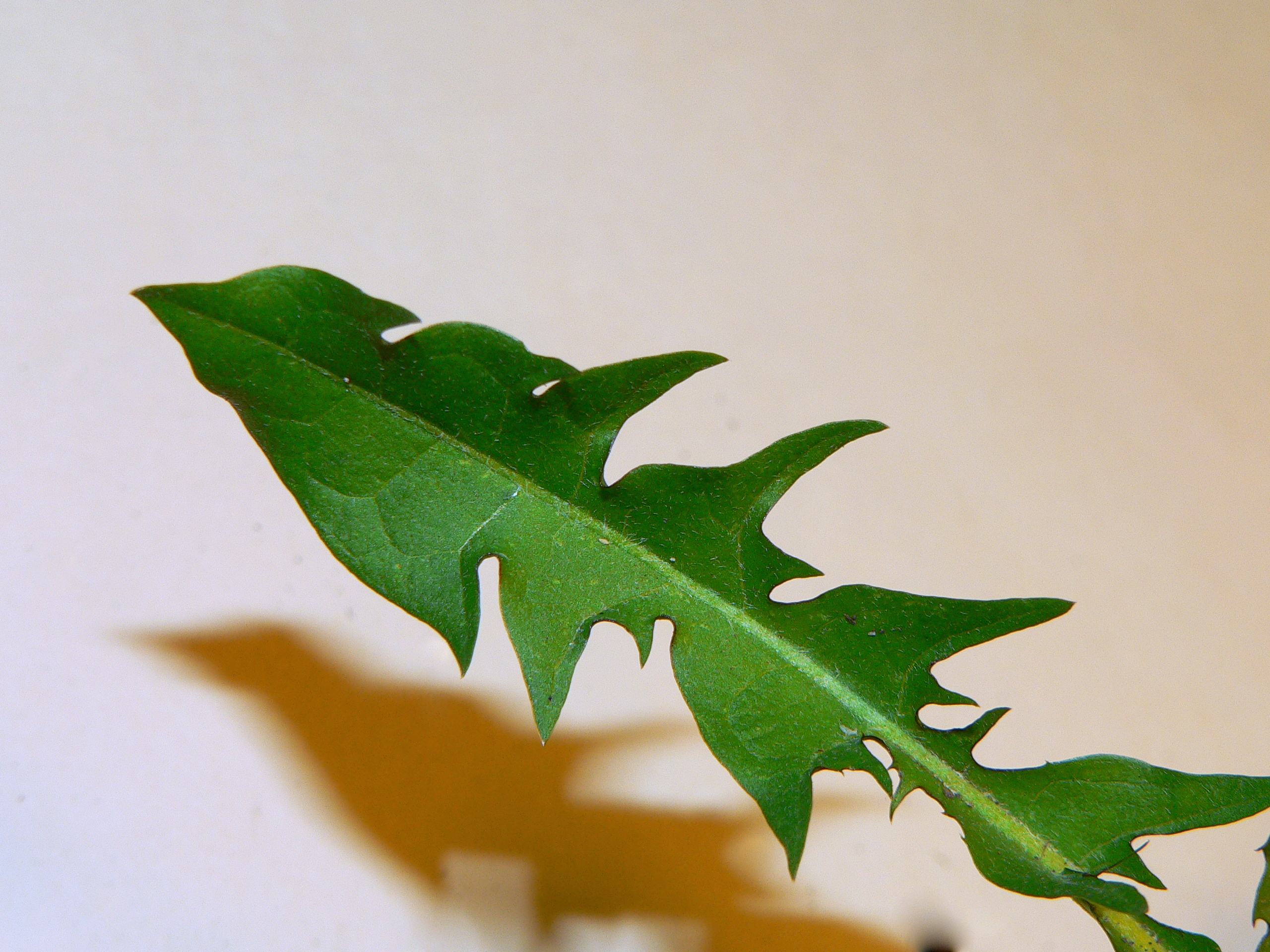 Detail of taxicum leaf. Photo by Greg Hume